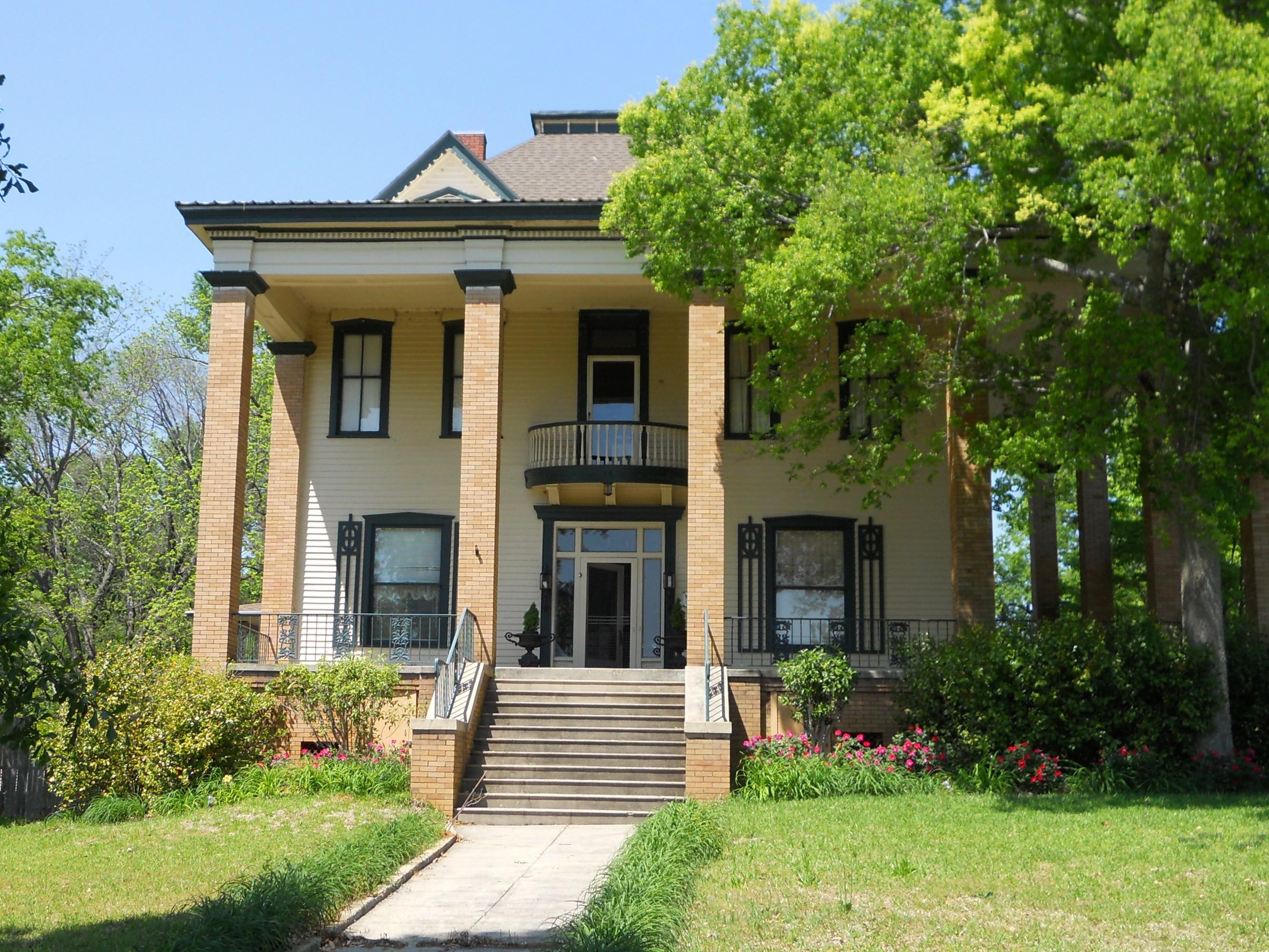 This is a photograph of the Floyd-Newsome House in Phenix City, AL. It is listed on the National Register of Historic Places